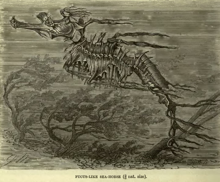 Weedy Dragon (sea horse)